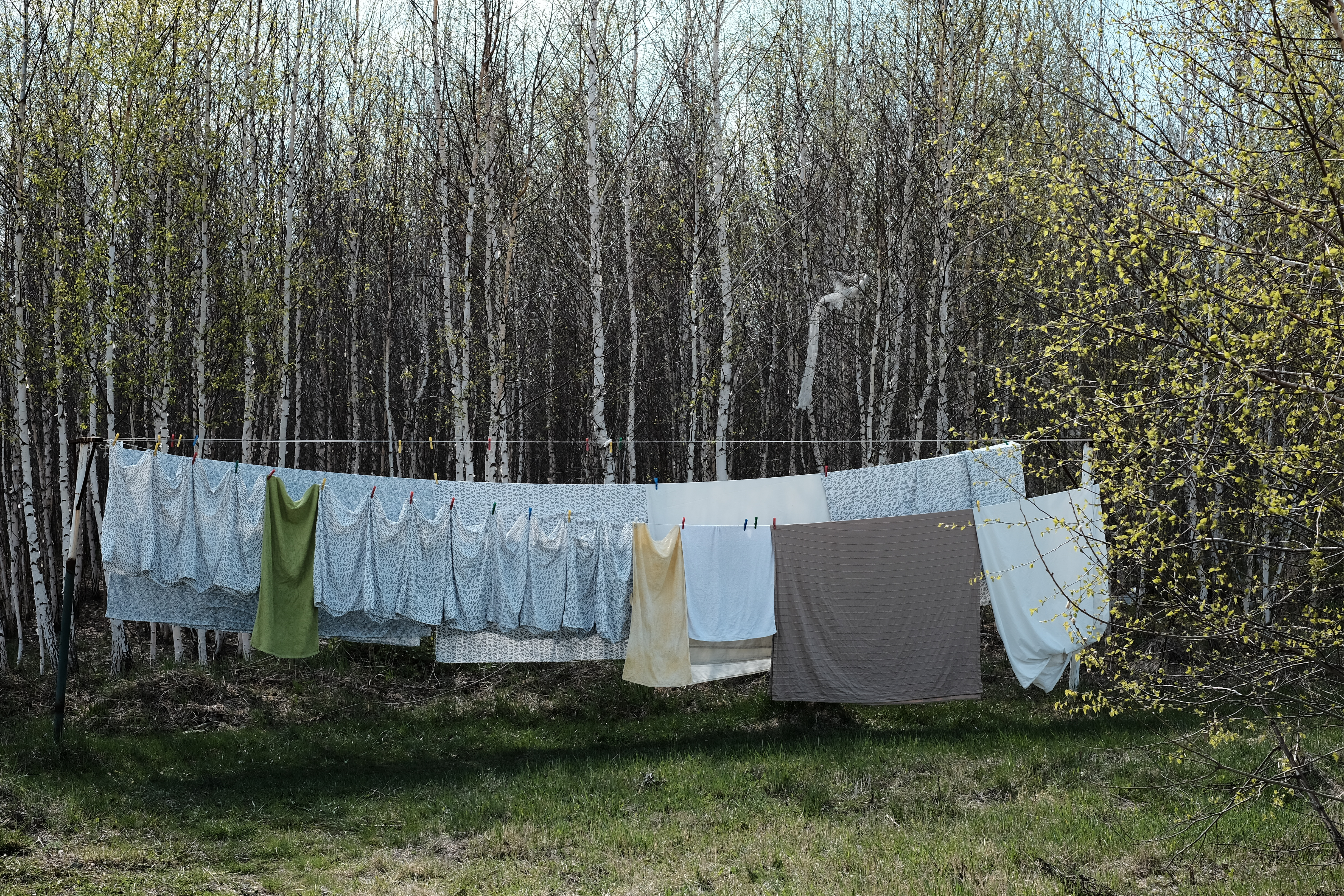 Dmitry Arslanov 2016